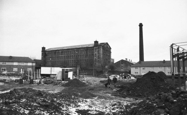 Drummond's Mill. Much earlier than Betty's picture 408688 and darker and more satanic. I liked the look of it, so took its picture. Fortunately Betty has done the ID for me. It was an unexceptional December day. Anybody who wants a superb book of photos of the Yorkshire woollen industry should seek out a copy of "Through The Mill" by Ian Beesley (1987). I saw the original exhibition at National Museum of Photography, Film and Television, Bradford.